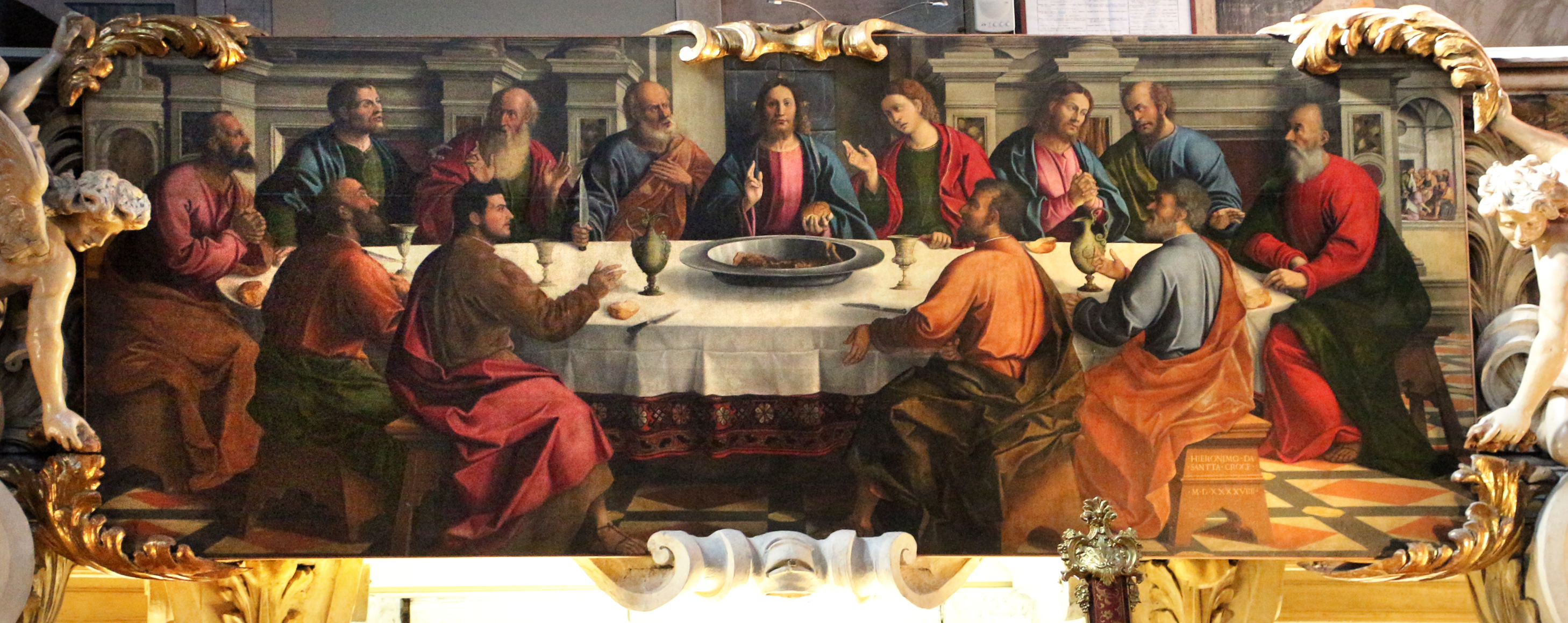 San Martino (Venice)